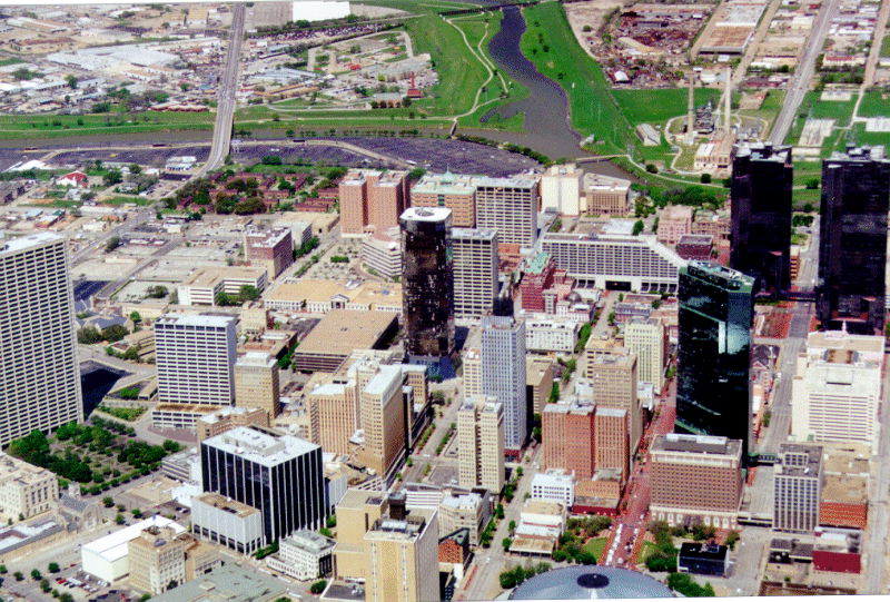 Aerial view of the tornado damage in Downtown Fort Worth with skyscrapers sustaining window and interior damage. (Courtesy of NWS Fort Worth)